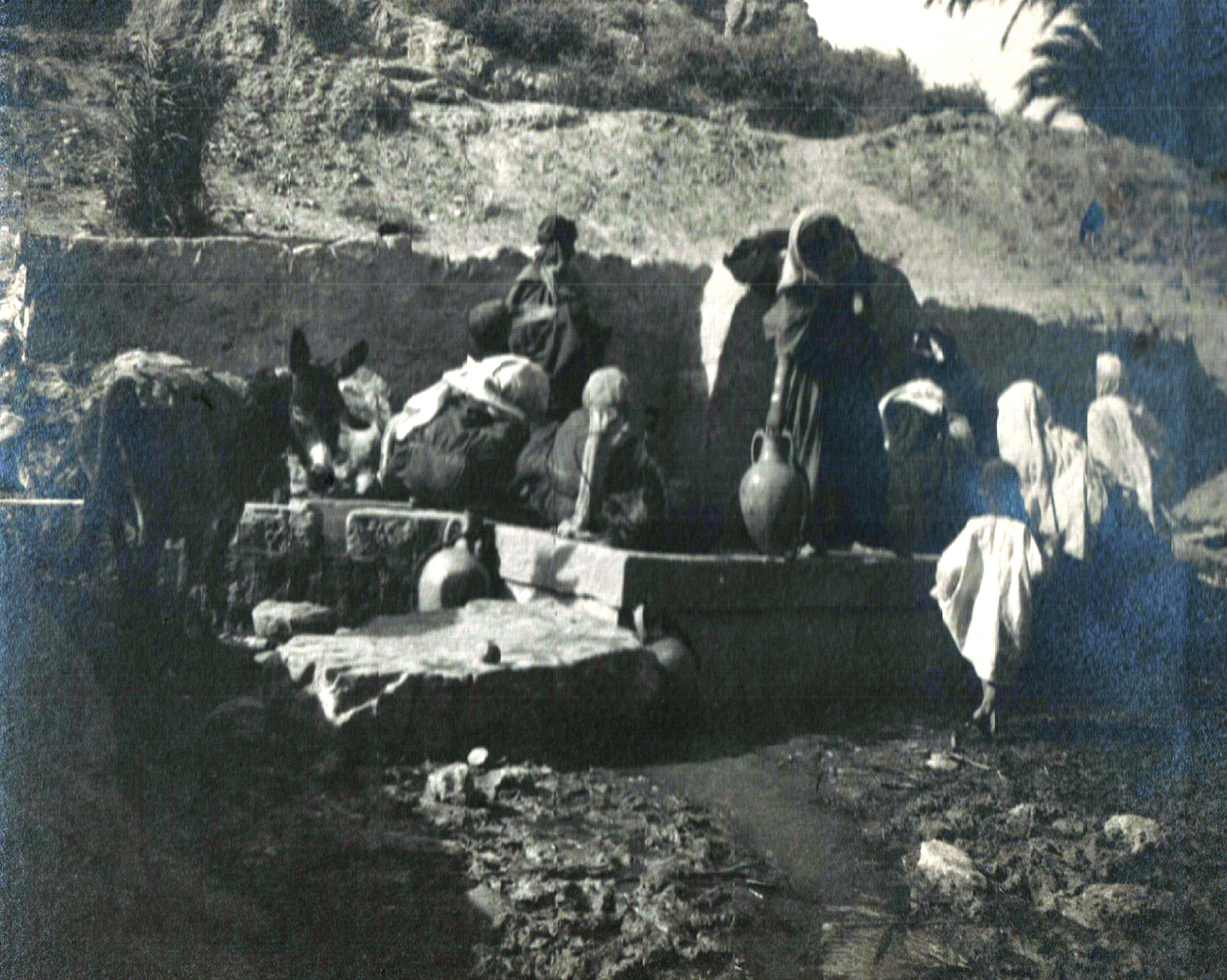 Views and photos of the Sahara desert and other regions in Africa.